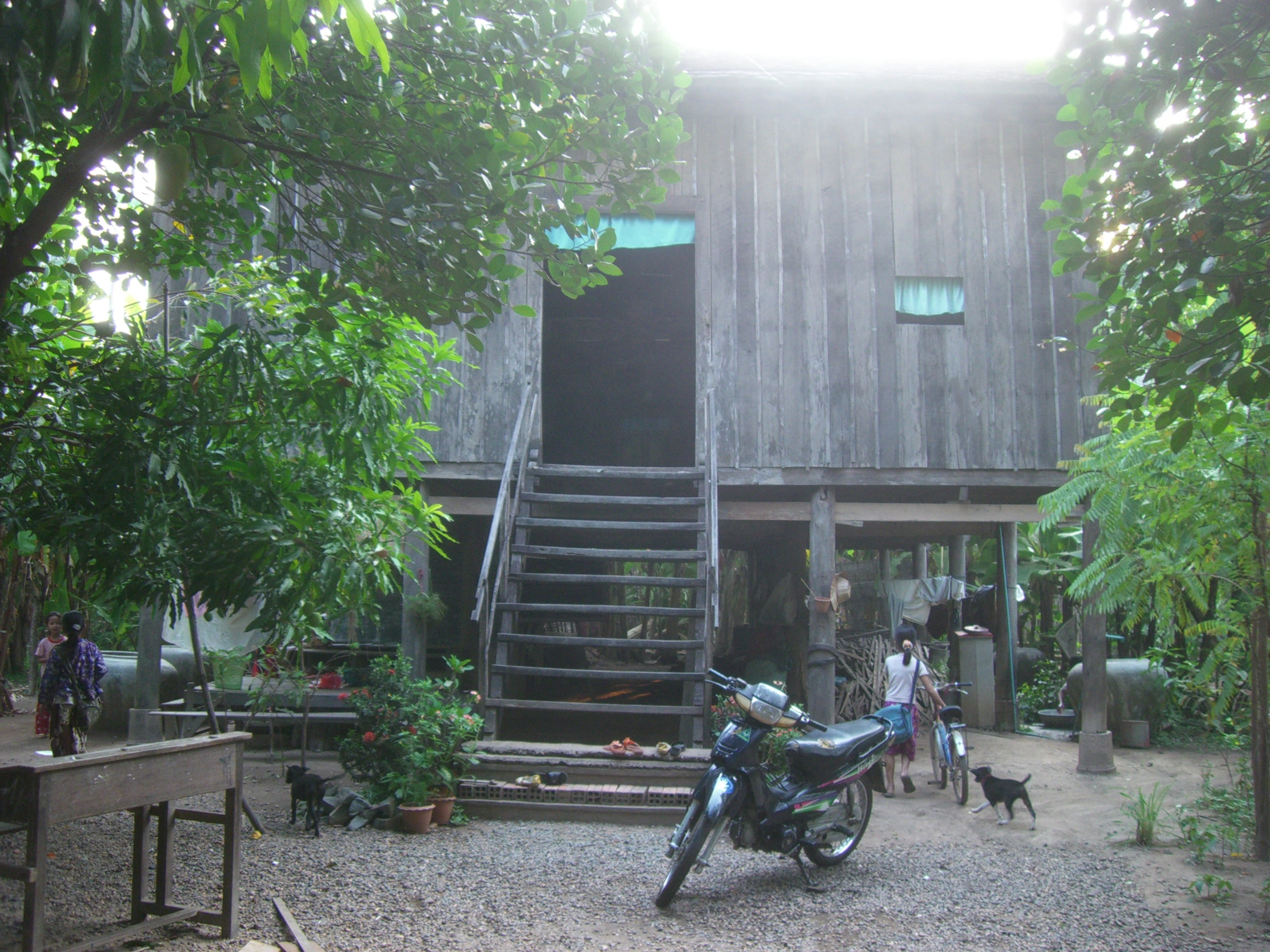 House in Kratié, Cambodia